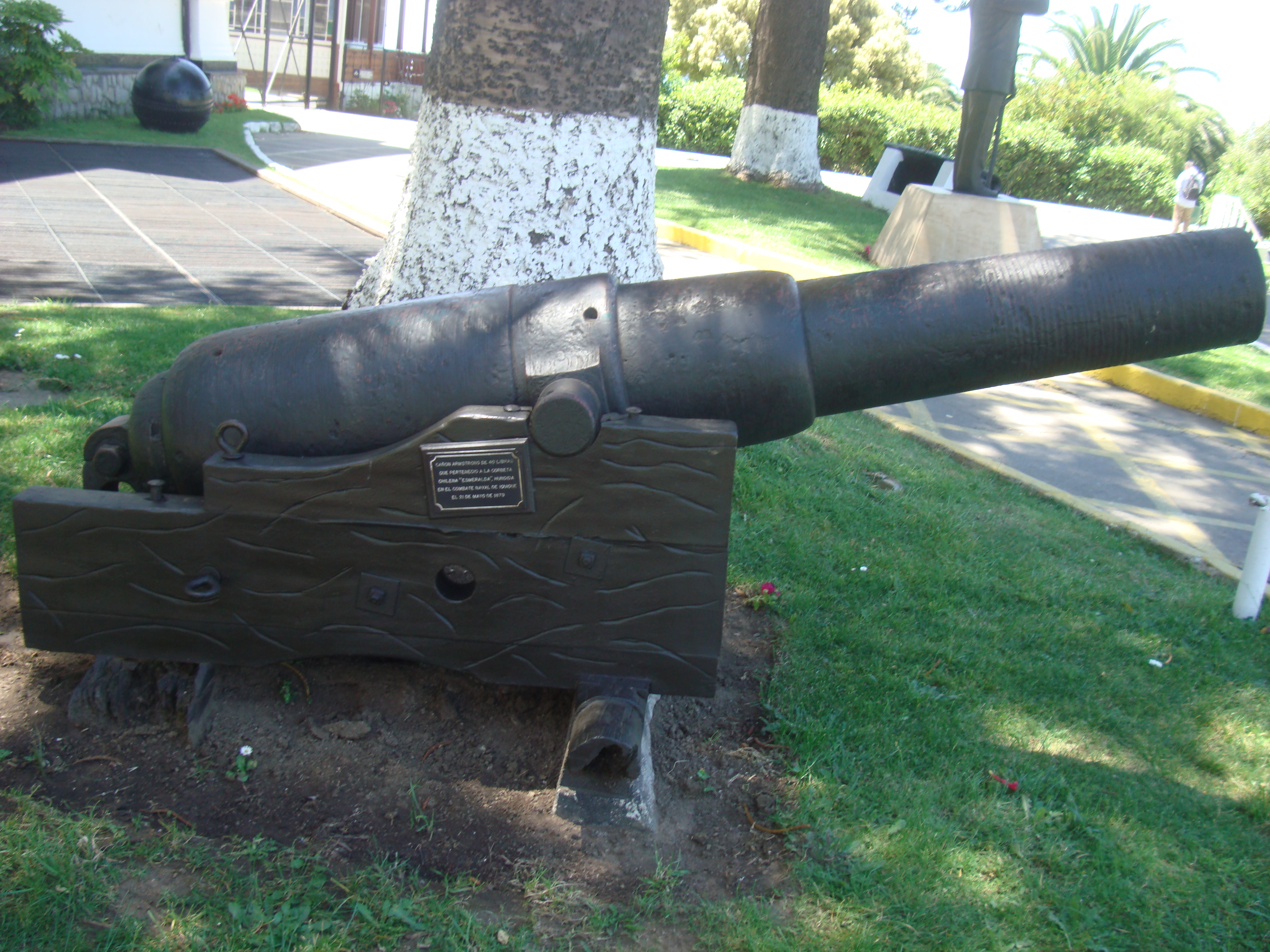 Canon Armstrong de la Esmeralda en el Museo Naval de Valparaiso: dice: Cañón rayado de avancarga Armstrong de 40 libras que perteneció a la corbeta Esmeralda, rescatado del pecio de la misma, en Iquique. Estas piezas fueron construidas en la Real Fábrica de Cañones de Elswick, Newcastle-on-Tyne, Inglaterra, de fierro forjado zunchado, con la culata adaptada para pasar el tornillo de elevación. Para el Combate Naval de Iquique del 21 de mayo de 1879, la Esmeralda montaba doce de estas piezas según algunas versiones y diez según otras, piezas complementadas con cañones de 32 y 6 libras. Este cañón se conserva en exhibición, en el Museo Marítimo Nacional de Valparaíso. Fuente: Colección Museo Marítimo Nacional.